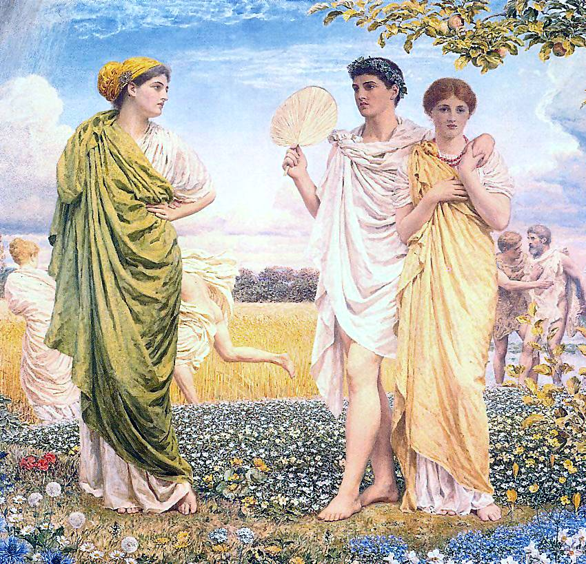 The Loves of the Winds and the Seasons